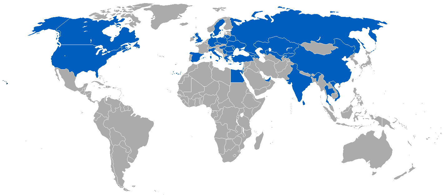 A map depicting countries (destinations) served by Aerosvit's scheduled operations.